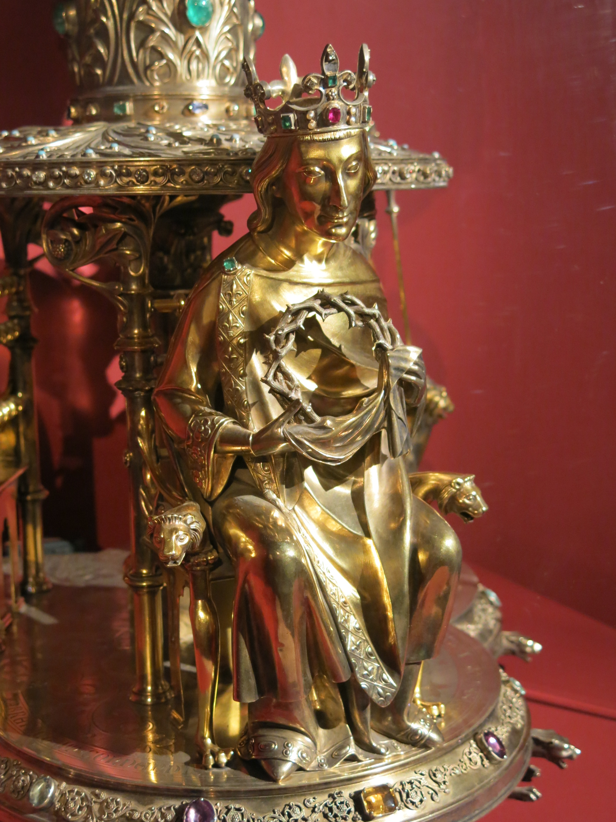 Detail of the reliquary of the Holy Crown with the French king Saint-Louis (Louis IX) holding the Crown in his hands. Treasury of the cathedral Notre-Dame de Paris (France) Réf. NDP68.